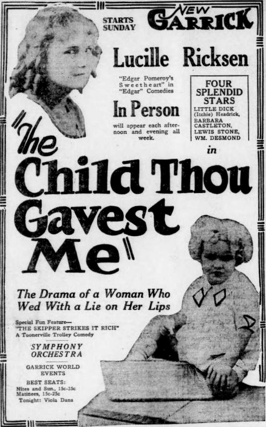 Still from the American film The Child Thou Gavest Me (1921) with Richard Headrick as the child Bobby, on page 9 of the August 20, 1921 Duluth Herald. Actress Lucille Ricksen, who was not in that film but starred in the comedy serial entitled The Adventures of Edgar Pomeroy, was at the theater in person for a week.